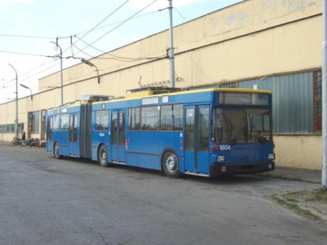 Gräf & Stift trolleybus 1804 in Sofia. It is ex-Innsbruck, Austria 814. It was built in 1988 for Innsbruck, and Sofia acquired it in 2006.